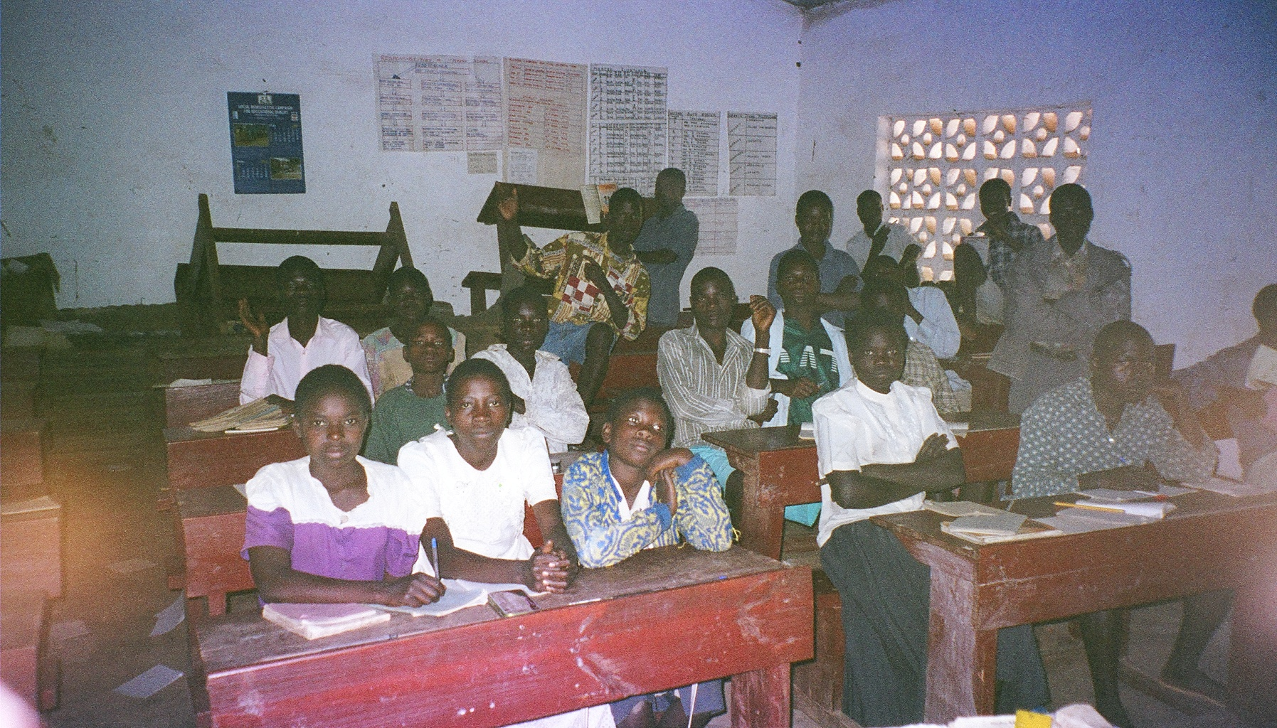 Classroom in rural Malawi